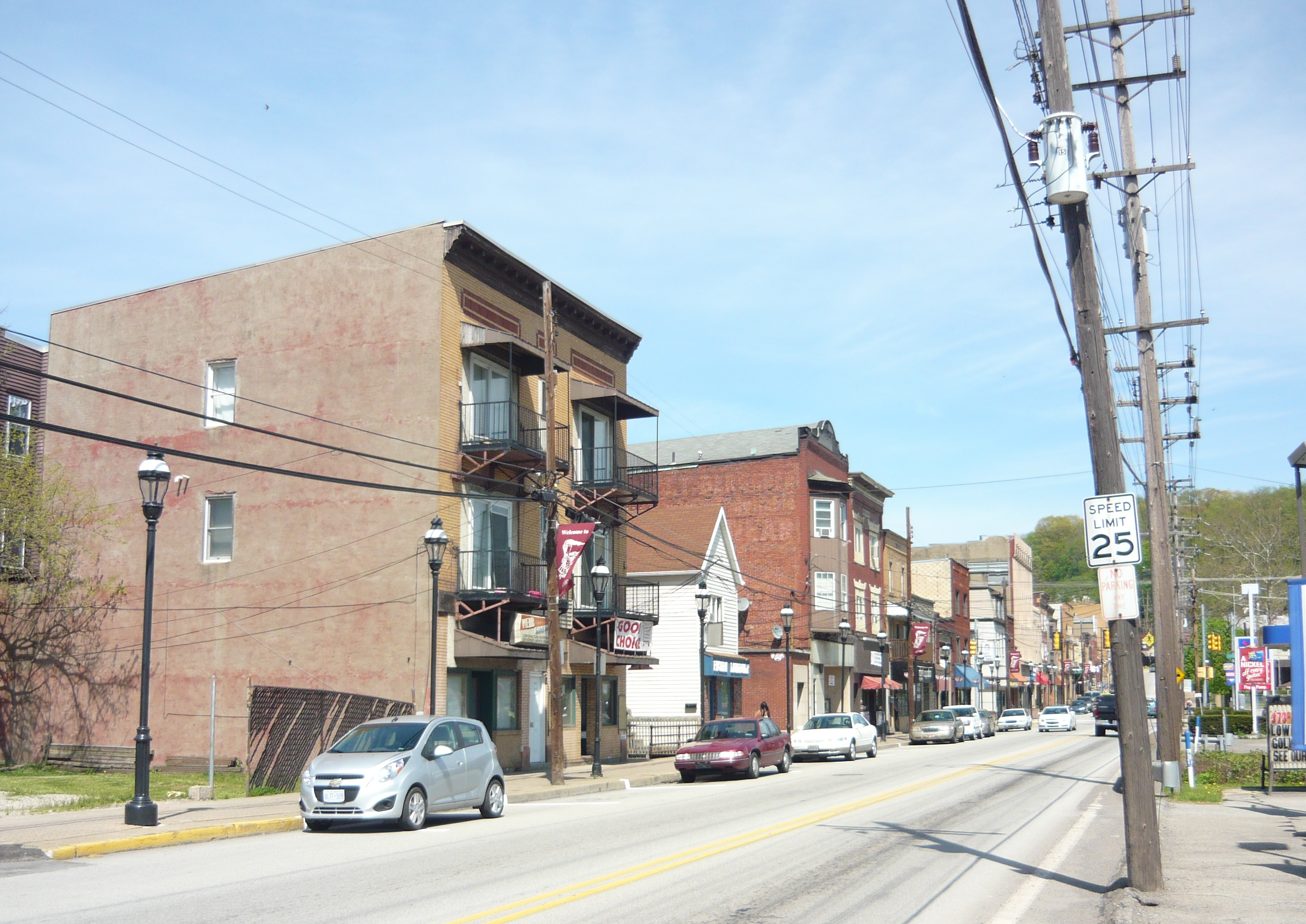 Business district of Pitcairn, Allegheny County, Pennsylvania. Looking eastward on Broadway Boulevard from Wall Avenue.